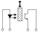 Optical Switch